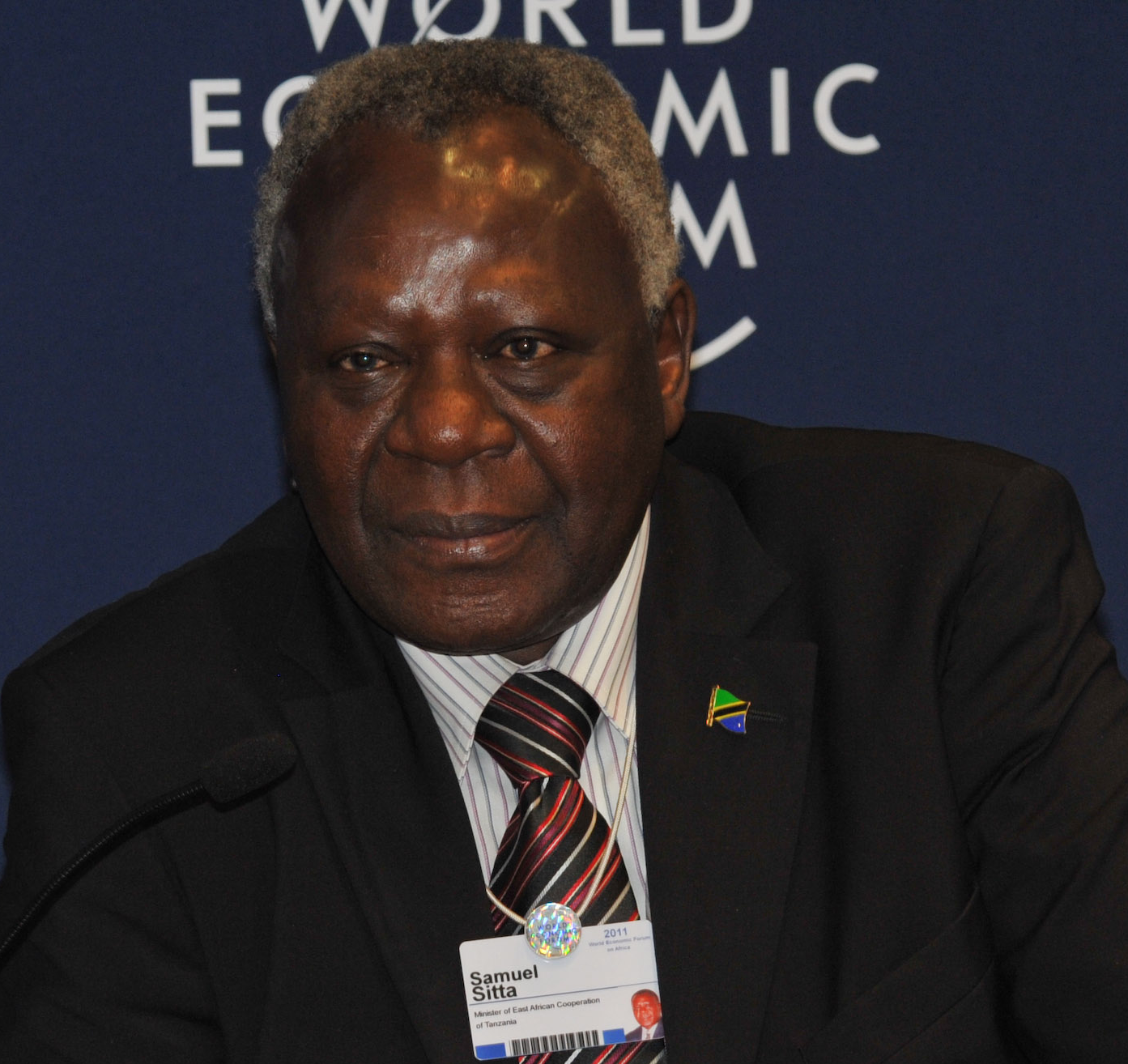 CAPE TOWN\SOUTH AFRICA, 06MAY11 - Samuel Sitta, Minister of East African Cooperation of Tanzania, during the Bridging Borders: Regional Integration held at the World Economic Forum on Africa 2011 held in Cape Town, South Africa, 4-6 May 2011.